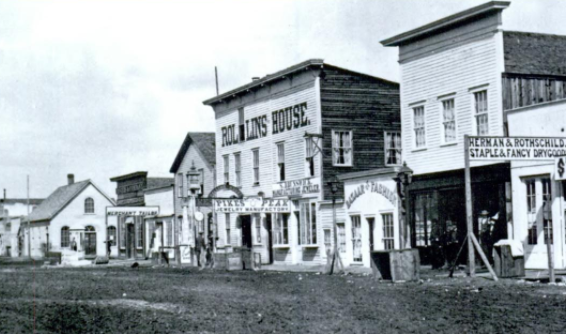 The Rollins House where the Wyoming Territorial state legislature met in 1871